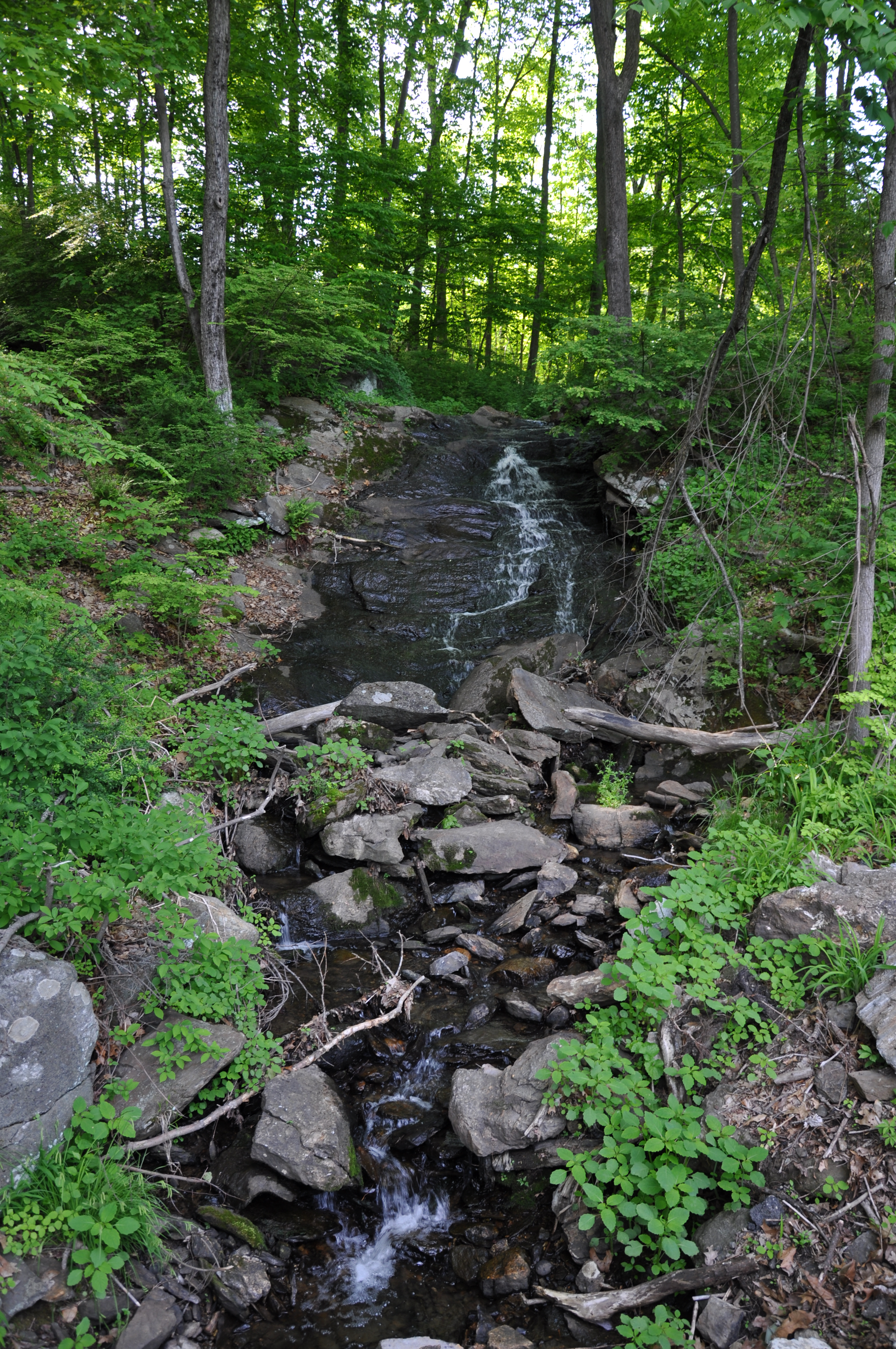 A tributary of the Pocantico River, at Juniper Ledge in Briarcliff Manor; taken May 26, 2014.